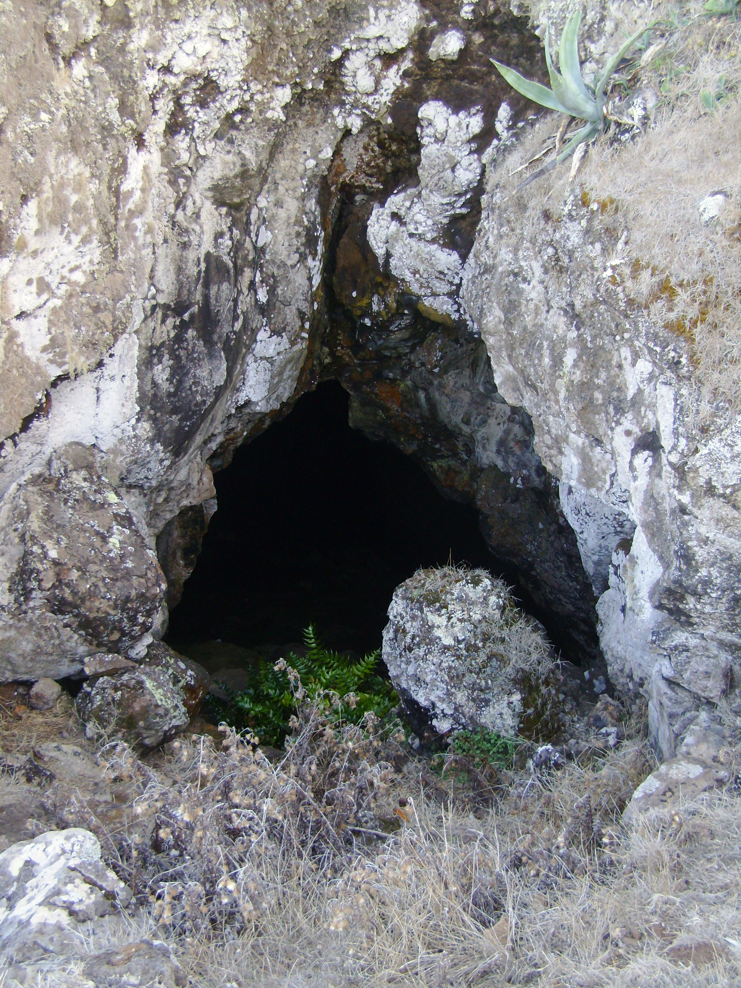 Entrance to the geological "Furna de Santana" in Anjos, civil parish of Vila do Porto, municipality of Vila do Porto (Azores), Portugal